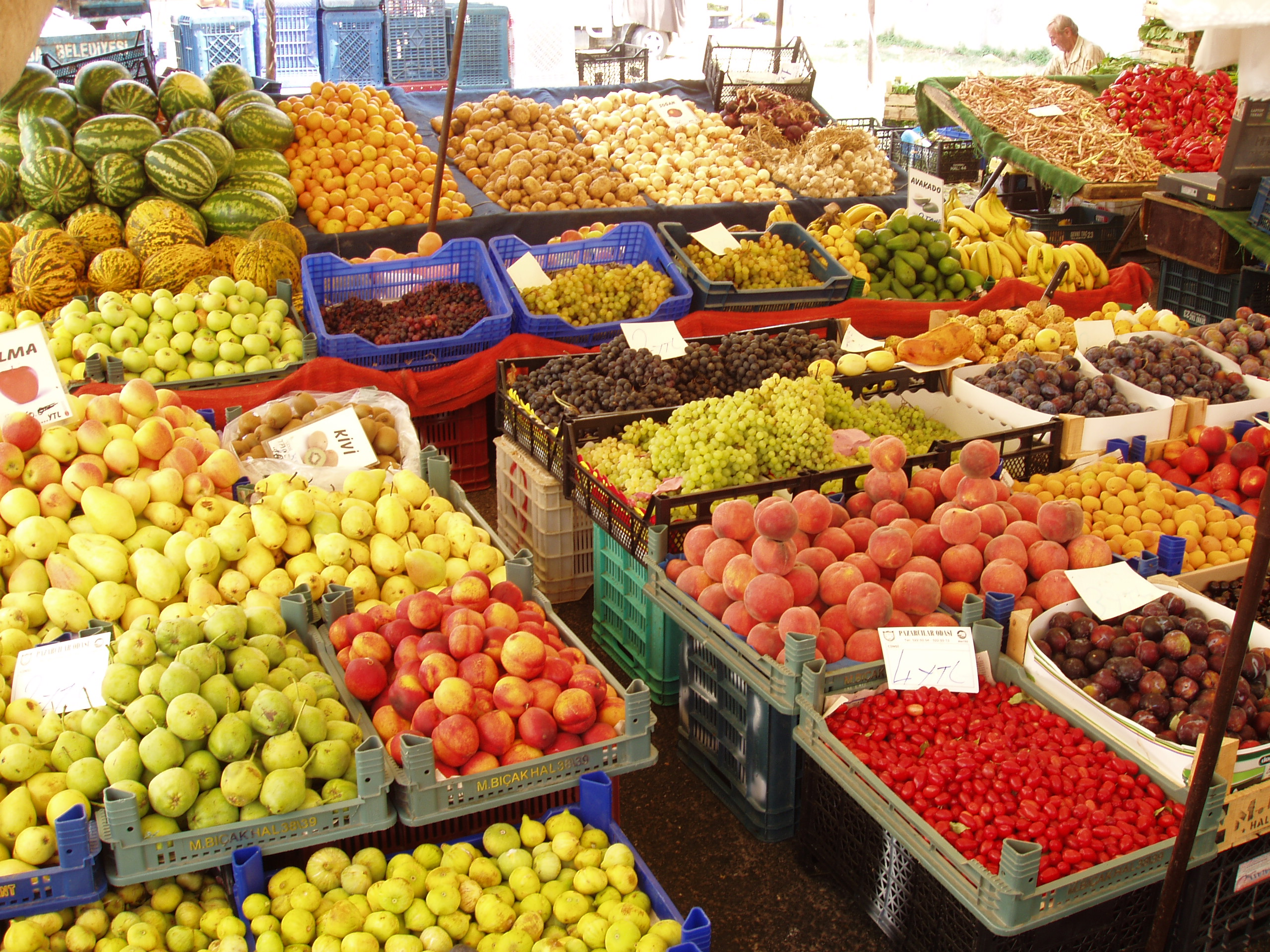 fruit market in Obaköy, part of Alanya, Turkey